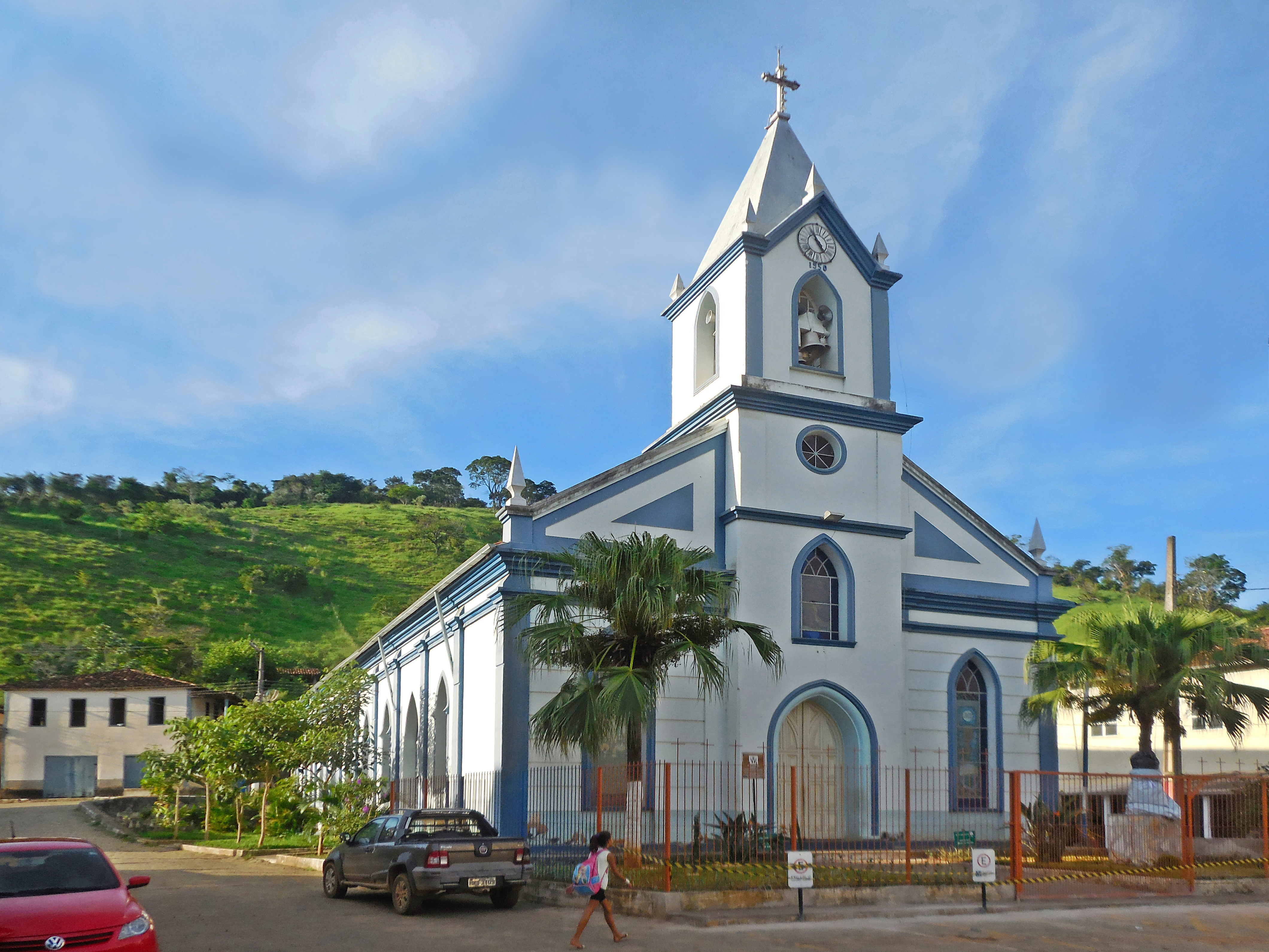 View of the Saint Joseph Matriz Church, in São José do Goiabal, Minas Gerais, Brazil.